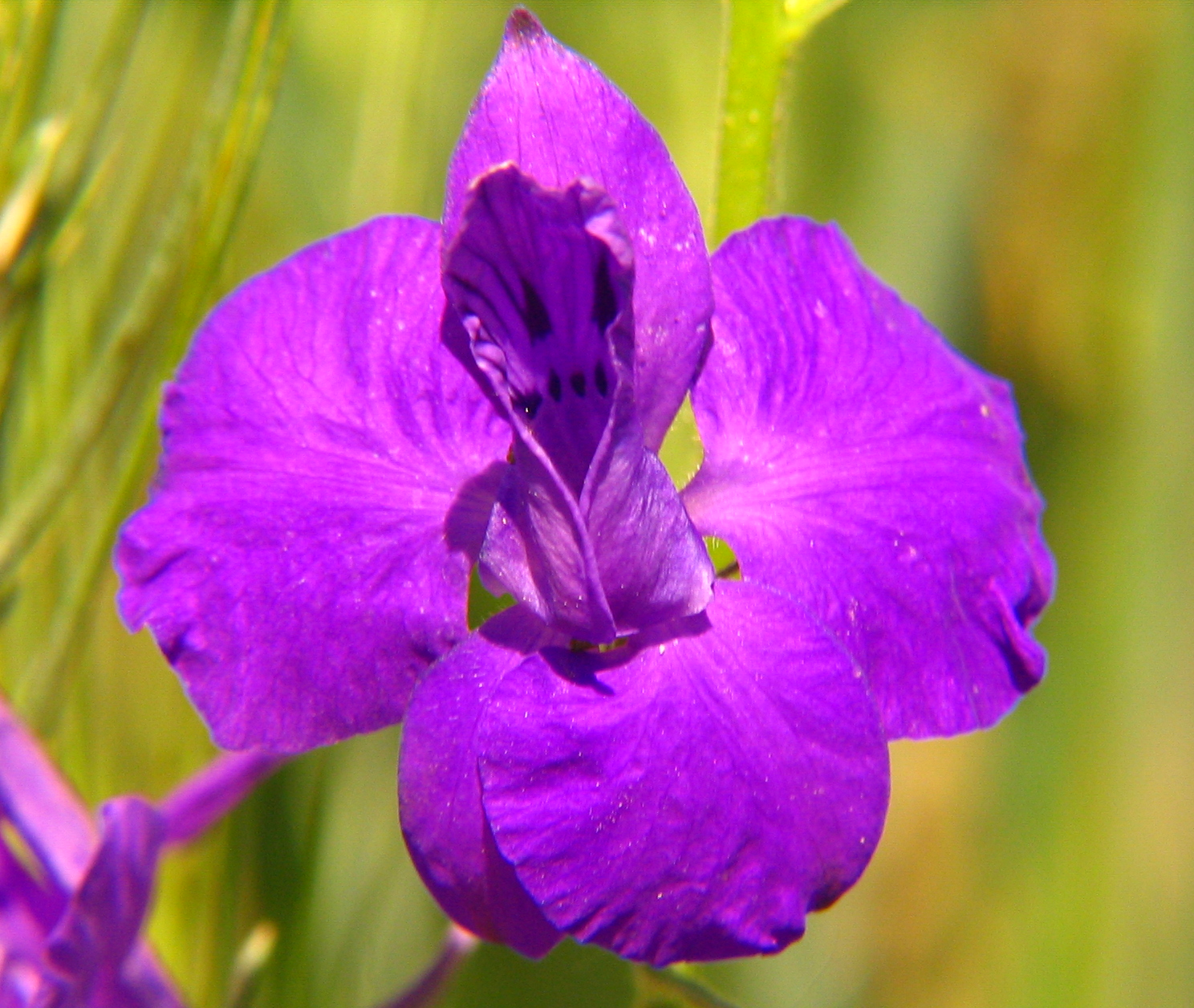 Consolida orientalis